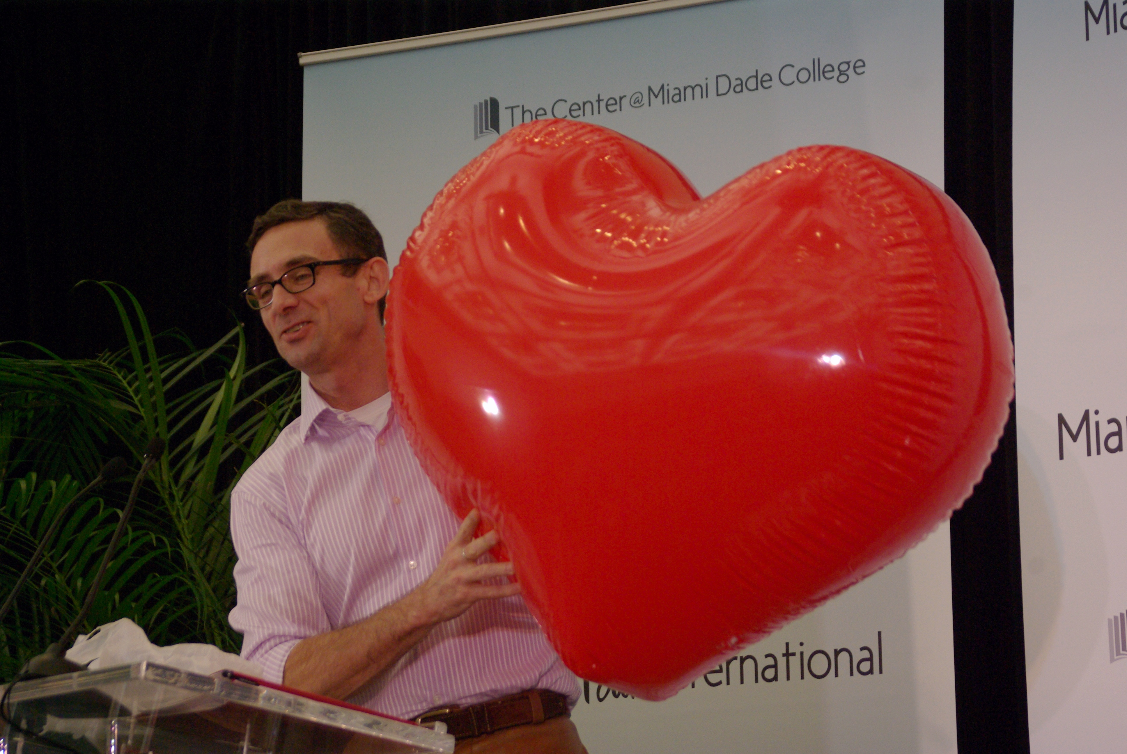 American writer Chuck Palahniuk at the Miami Book Fair International 2011